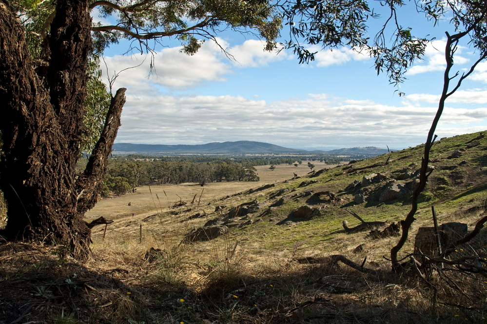 Looking south at the St. Arnaud Ranges National Park, Victoria.